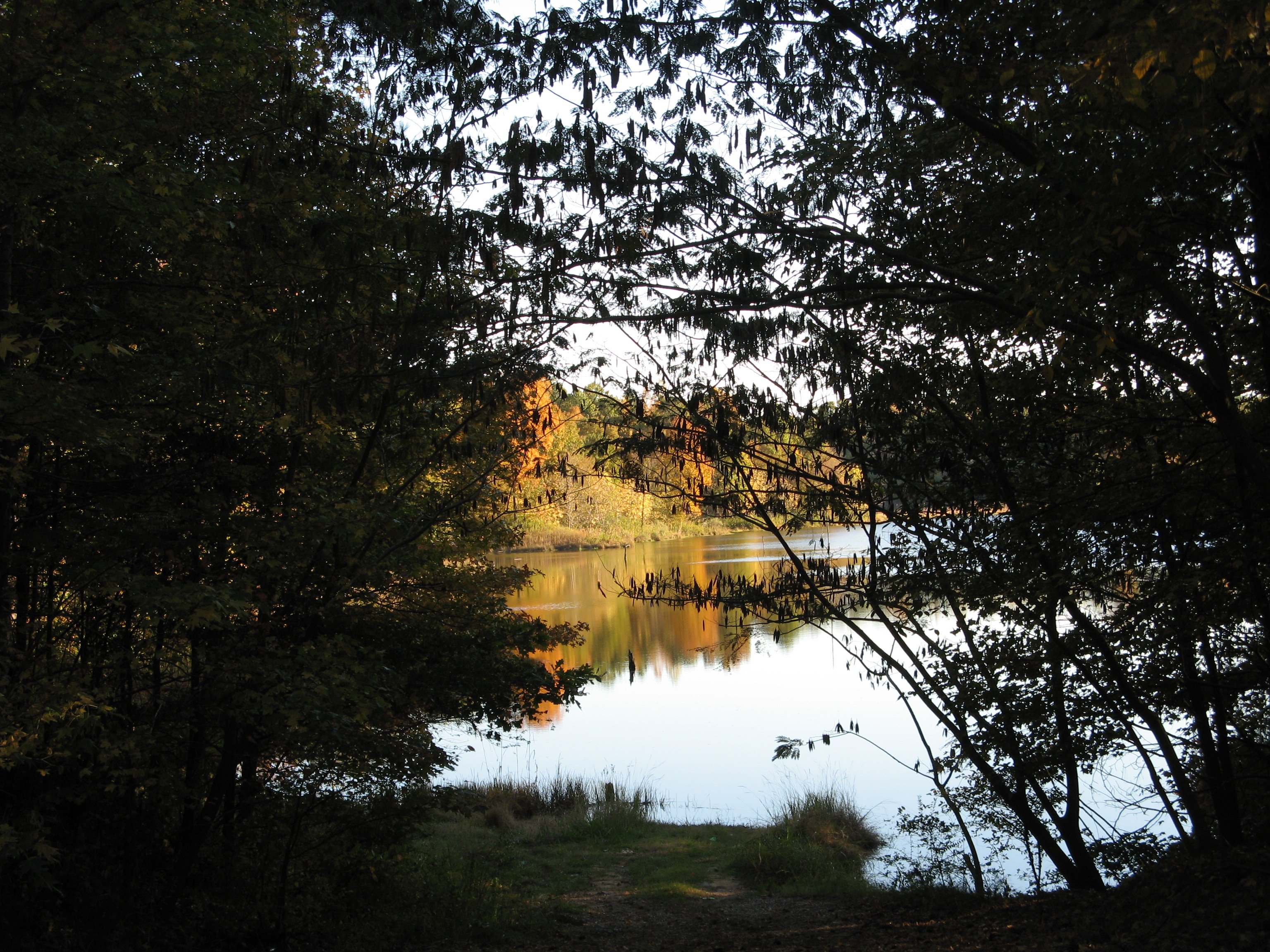 Although we don't have the spectacular leaf color of places farther north, there's a quiet beauty in Mississippi autumn. Montgomery County, Mississippi.